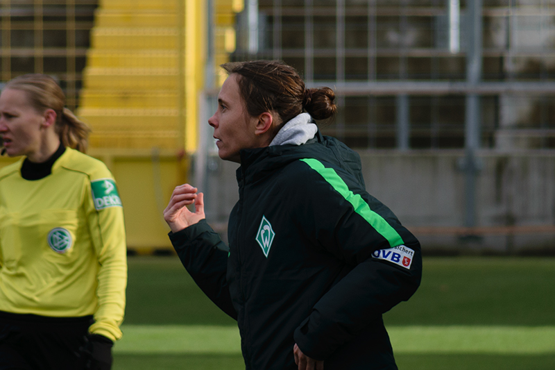 Carmen Roth